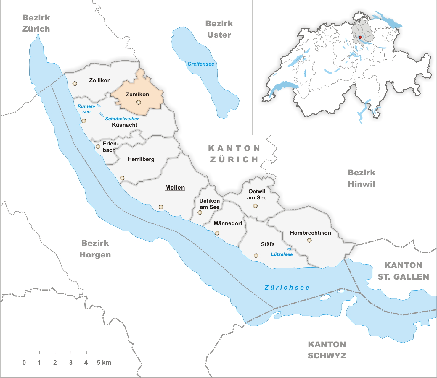 Municipality Zumikon